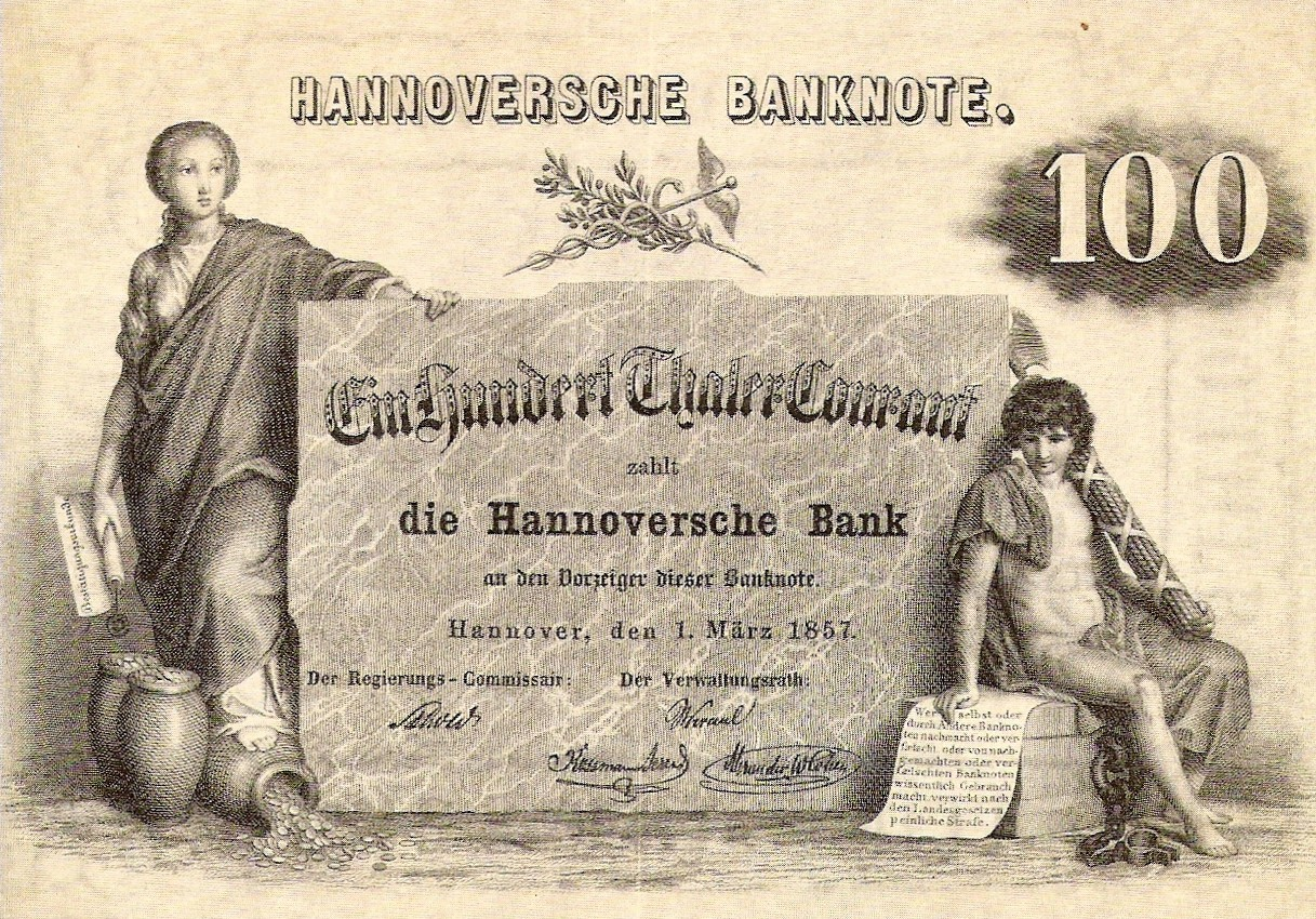 Banknote of Hannoversche Bank. 100 Taler from 1857